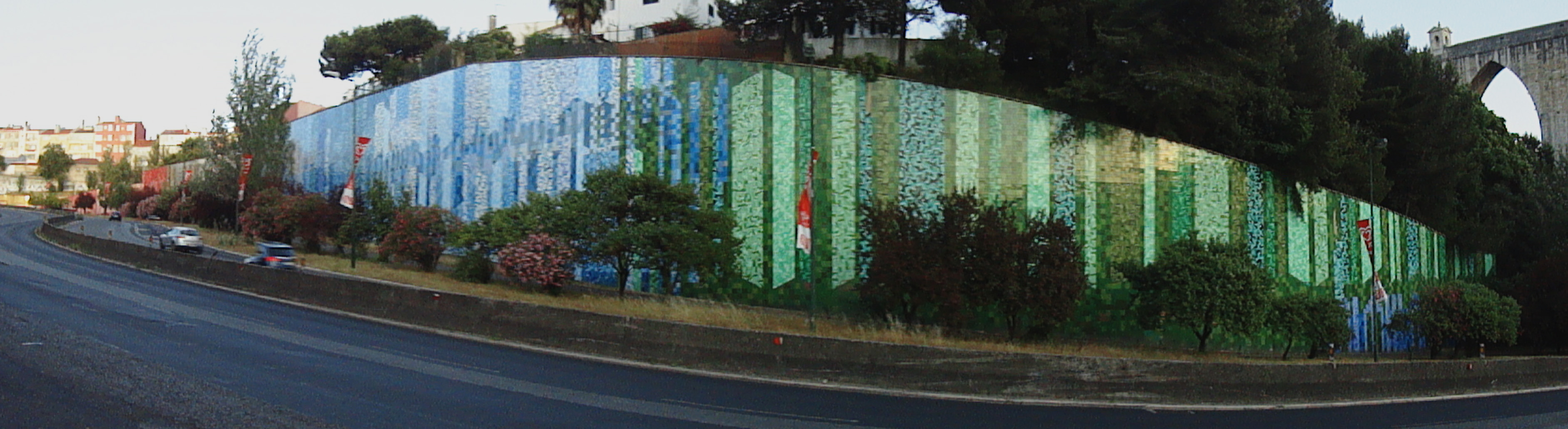 João Abel Manta, azulejos panel, Av. Calouste Gulbenkian, Lisbon.